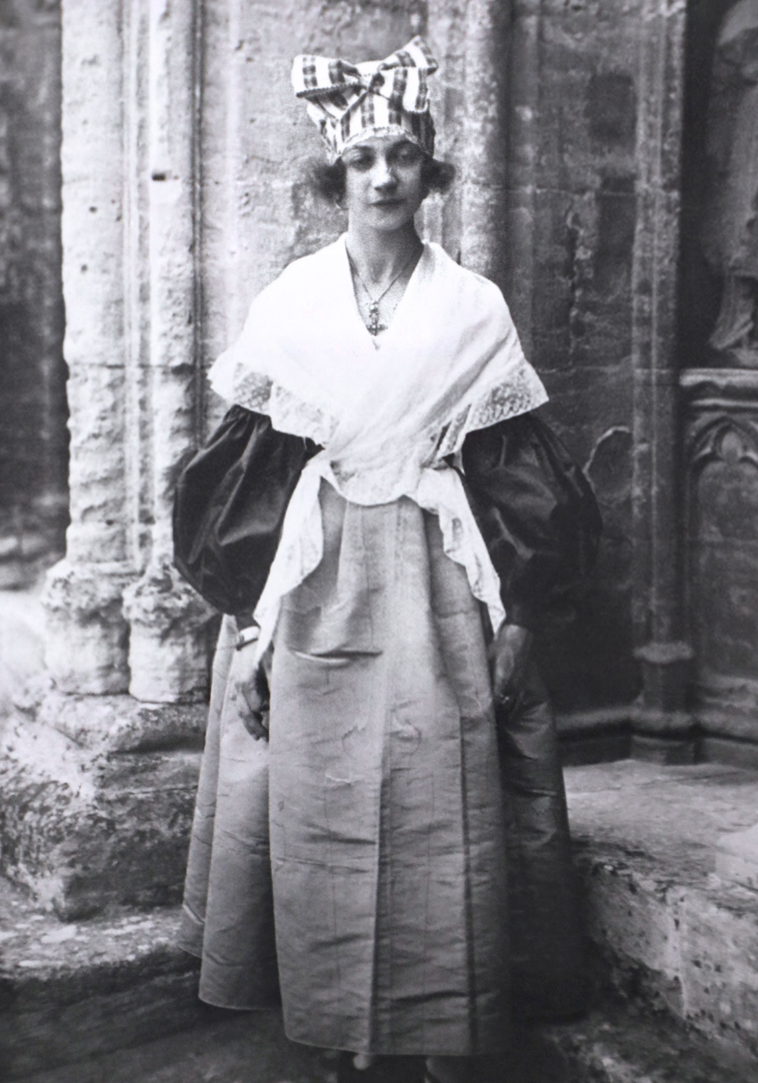 Yvonne Calment (1898-1934), daughter of Jeanne Calment (1875-1997), the world's oldest woman. She is standing in the courtyard of the cloister of Saint Trophime (Arles), in front of the South gallery (see photo), near the number 90 from the cloister map.